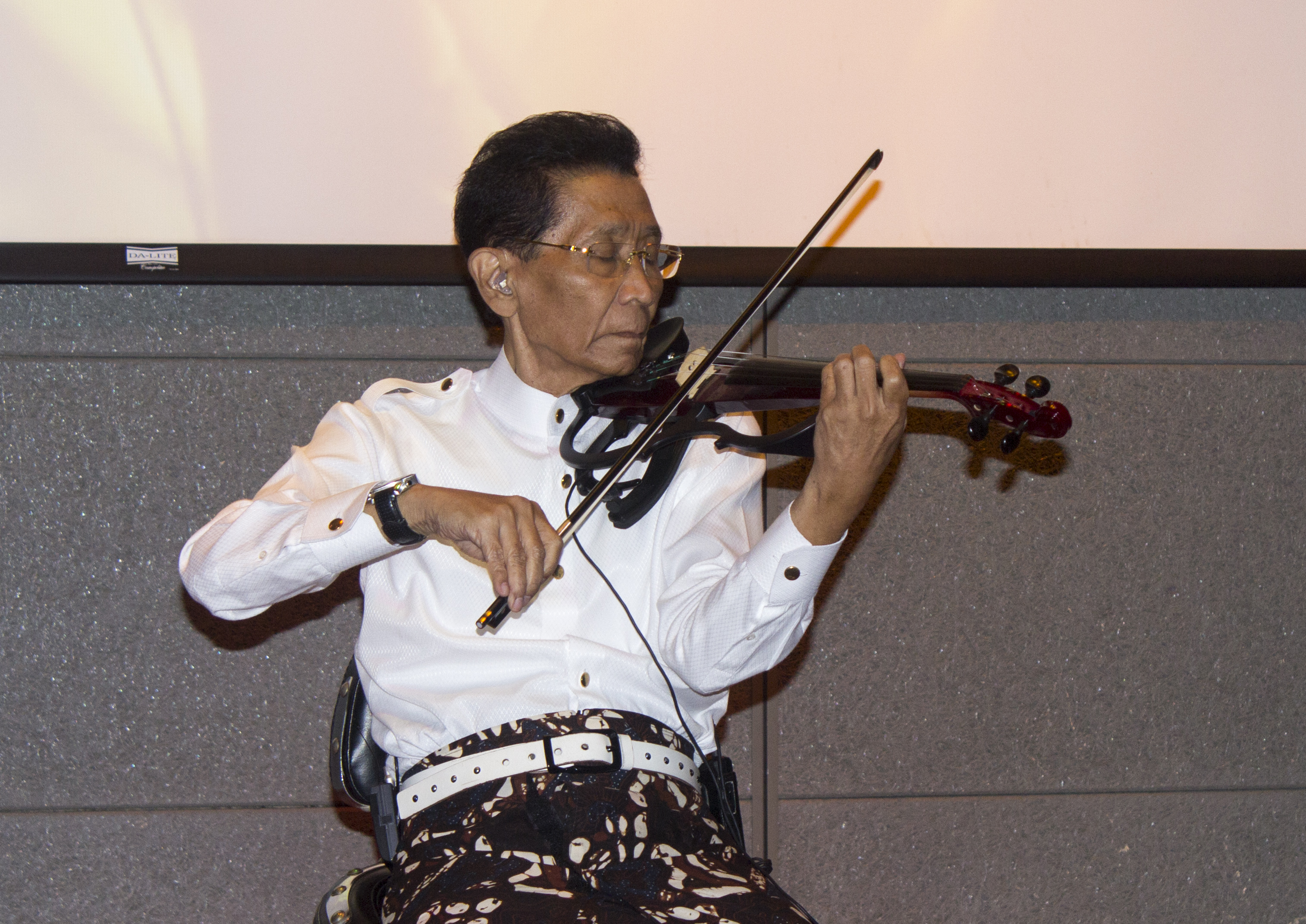 Musician (composer/violinist) Idris Sardi at the National Library of Indonesia during at the launch of the website about him.